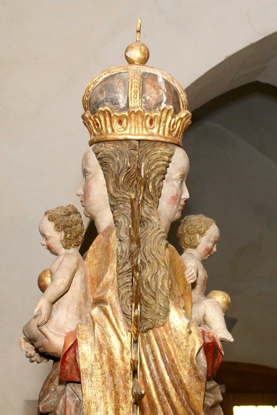 statue double-side madonna with child